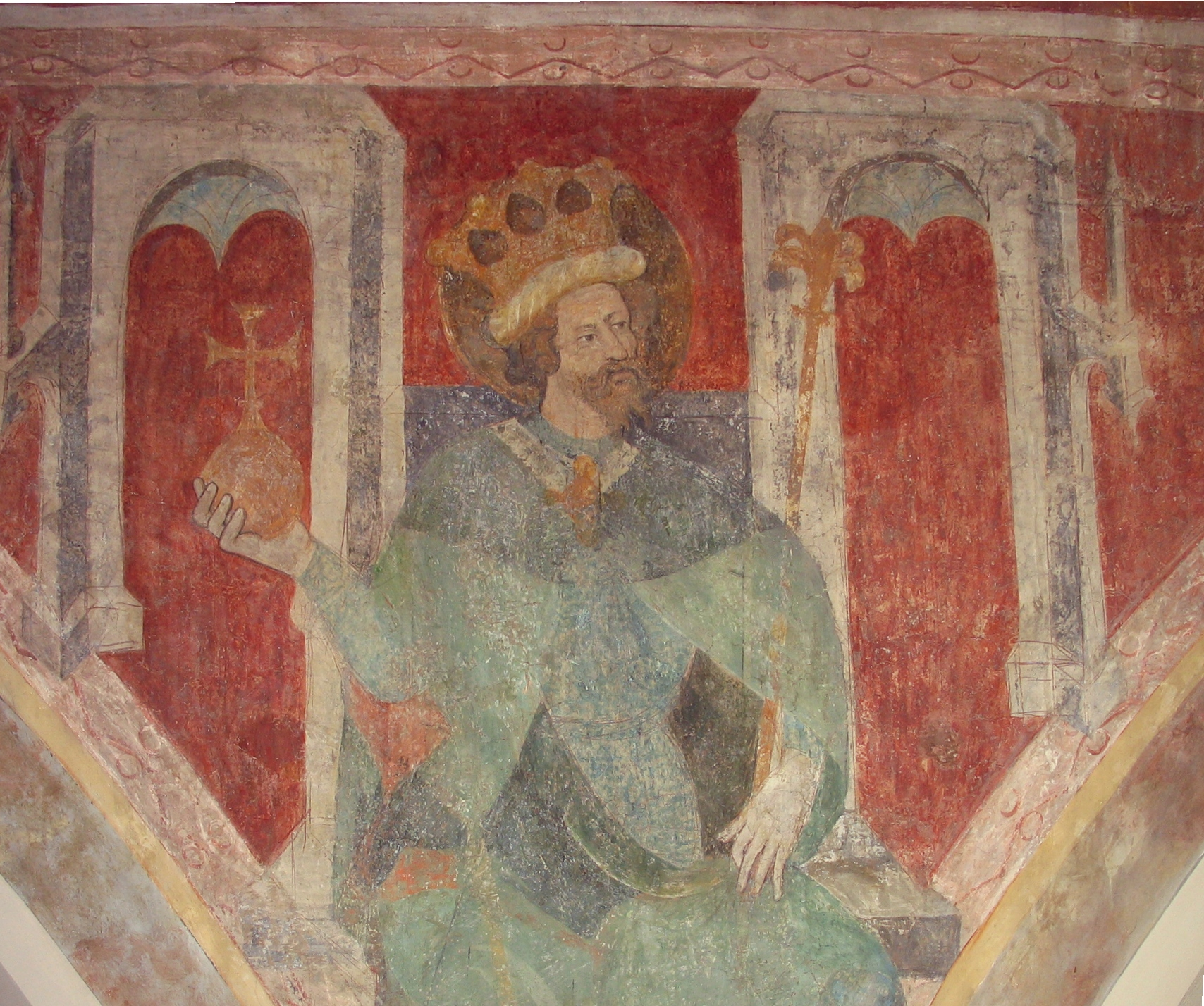 Sigismund of Burgundy. Konstanz, Dreifaltigkeitskirche, fresco on the wall of the nave. Dated between 1417 and 1437.